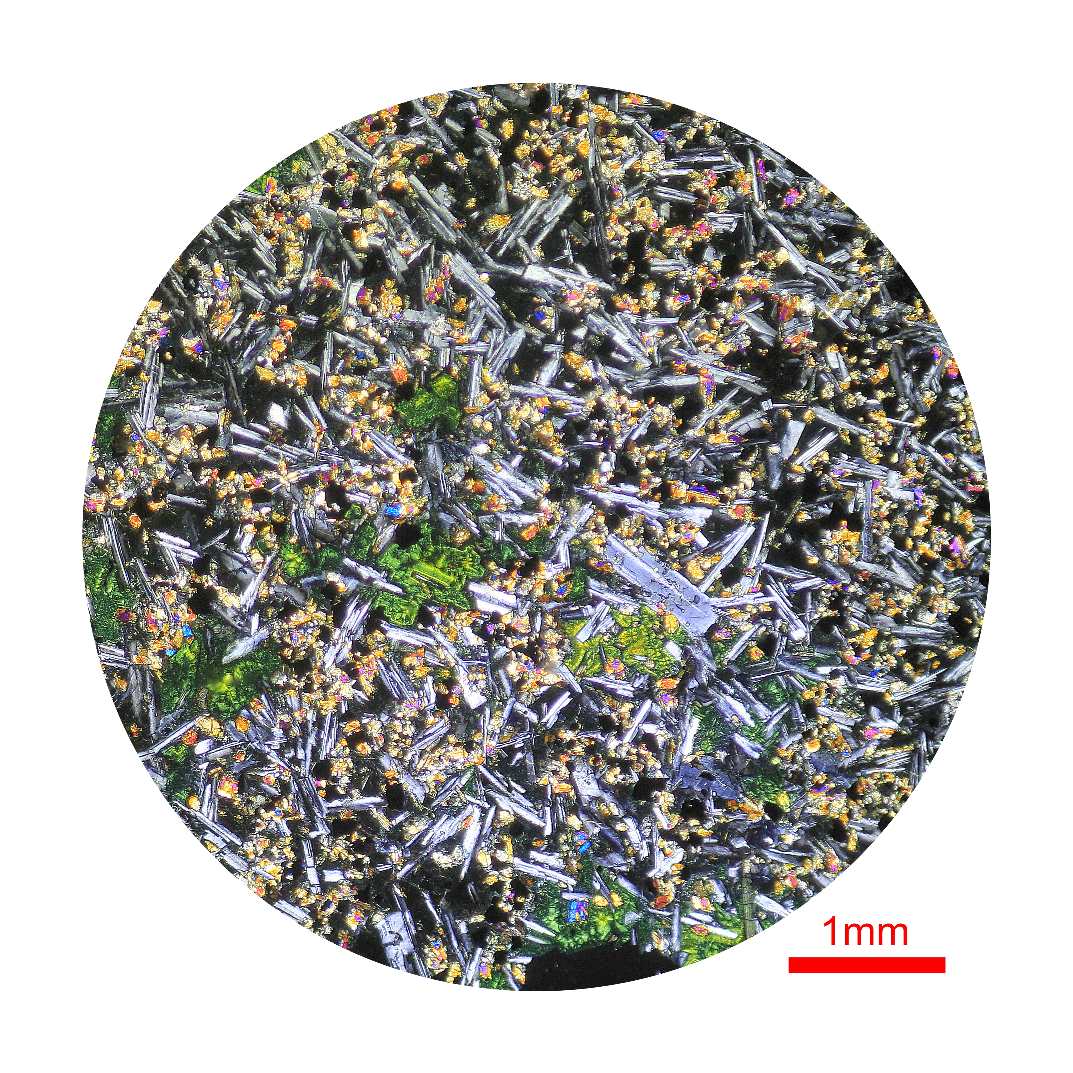 Thin section of basalt from Ukraine. Crystals of plagioclase (striped grey), pyroxene (red and blue interference colours) and a few grains of chlorite (green). Volcanic glass is black (isotropic). A sample from the top of a lava flow of a basalt quarry at Volyn.